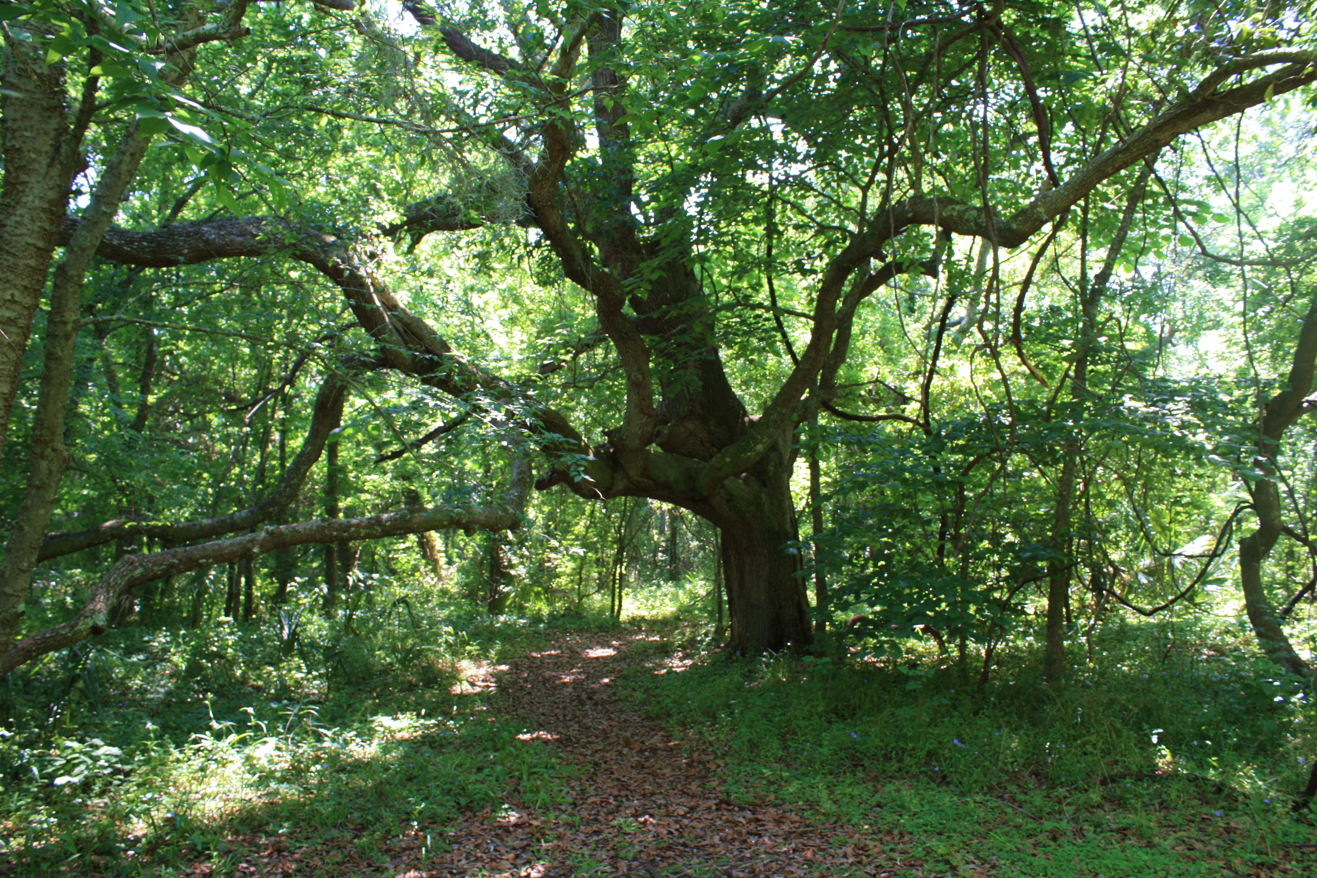 Indian Shell Mound Park on Dauphin Island, Mobile County, Alabama, United States. Individually listed on the National Register of Historic Places.